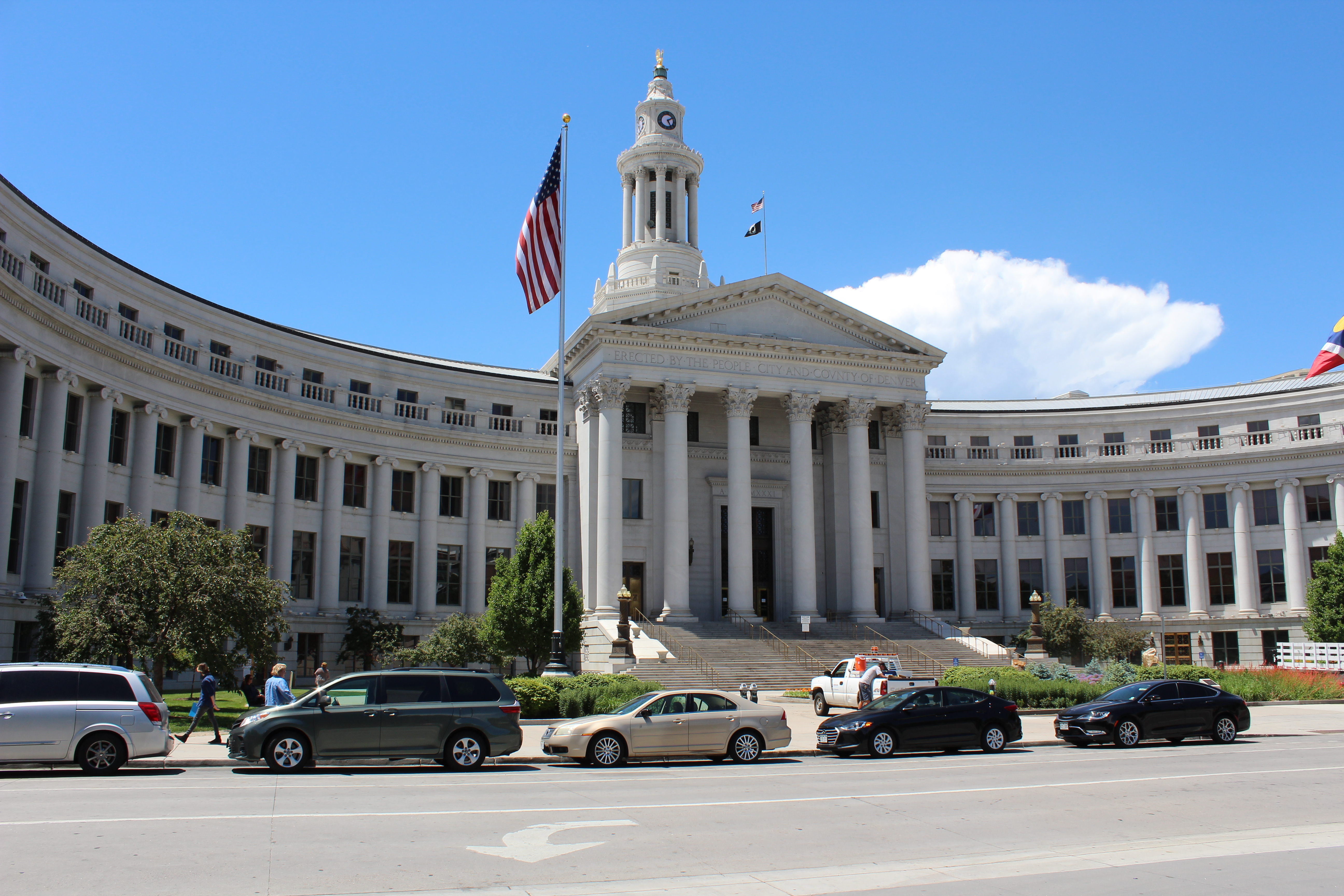 Denver City Council building. View from south-east.